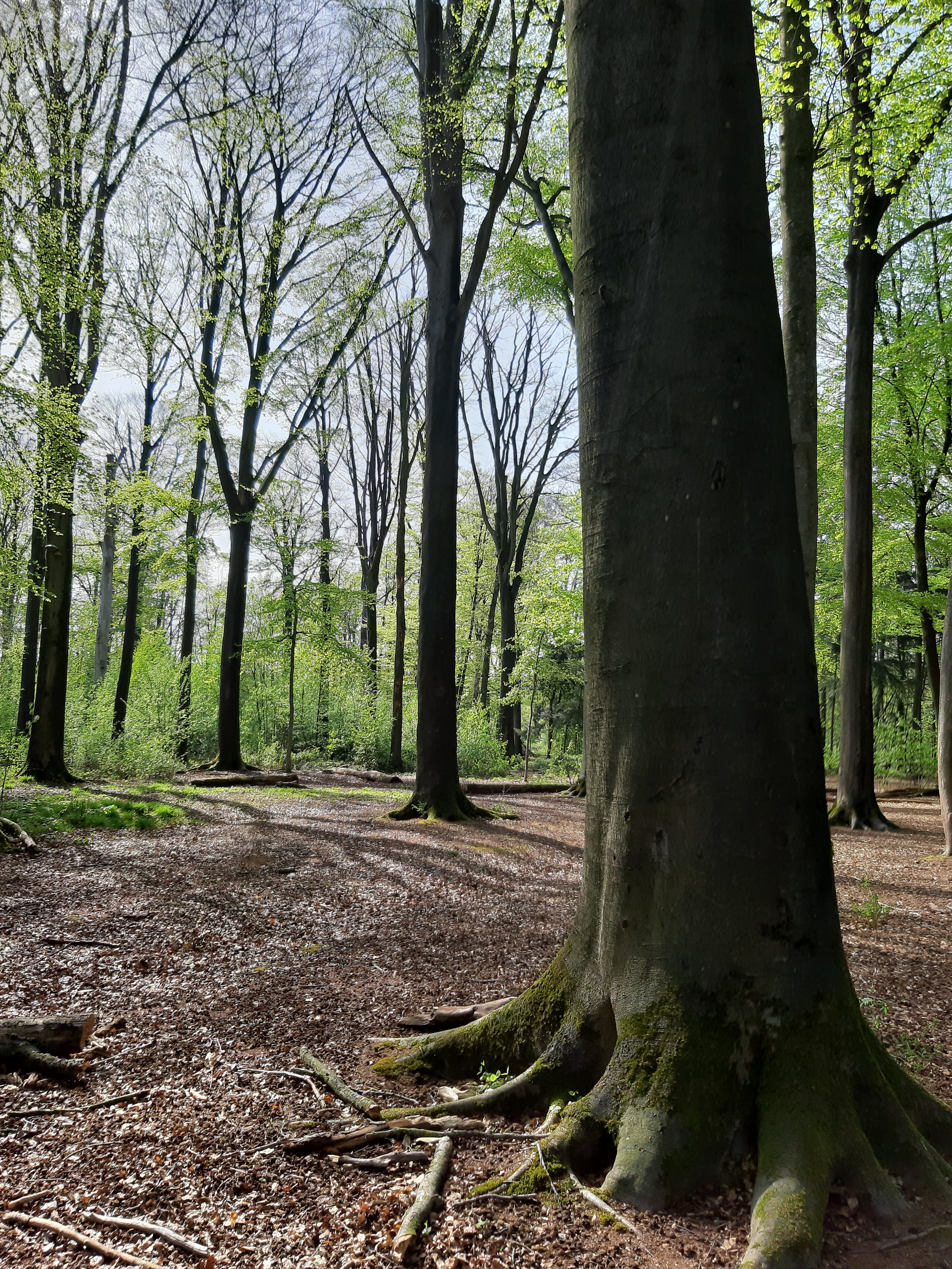 20190422 Groenhovebos